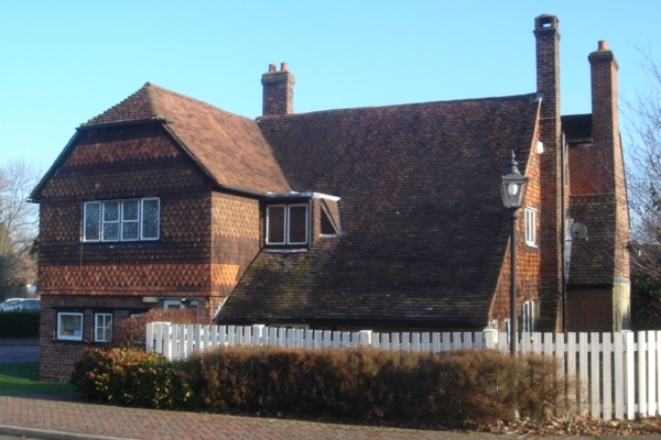 Jordan's, Vancouver Drive, Langley Green, Borough of Crawley, West Sussex, England: a 16th-century farmhouse with 18th- and 19th-century additions. Steep tile-hung roof; large chimney breast; sash windows. Listed at Grade II by English Heritage (IoE code 363378)